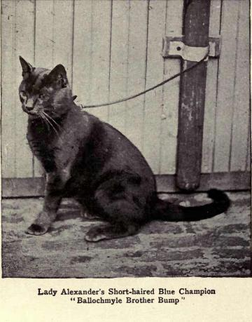 "CHAMPION BALLOCHMYLE BROTHER BUMP. This grand Short-haired Blue (commonly called Russian) is the property of Lady Alexander, and has won a first prize whenever he has appeared in a show pen, and, curiously enough, each time under a different judge. He won the Challenge Cup at Westminster in 1900, and since then three championships at N.C.C. Shows. He is beautiful in colour, has a well-shaped head, and grand orange eyes"